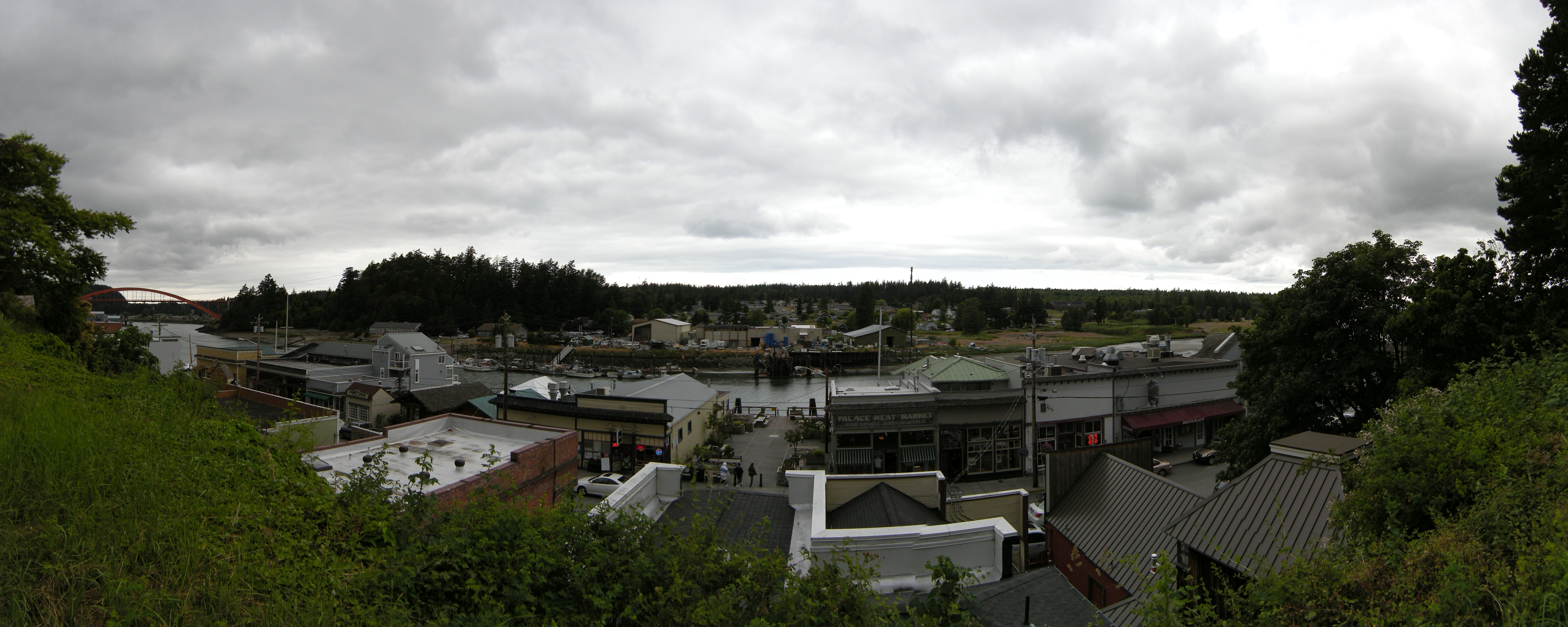 Downtown La Conner, Washington: part of 1st Avenue S., the Swinomish Channel, and the fishing port on the Swinomish Reservation across the channel. This image was created with Hugin